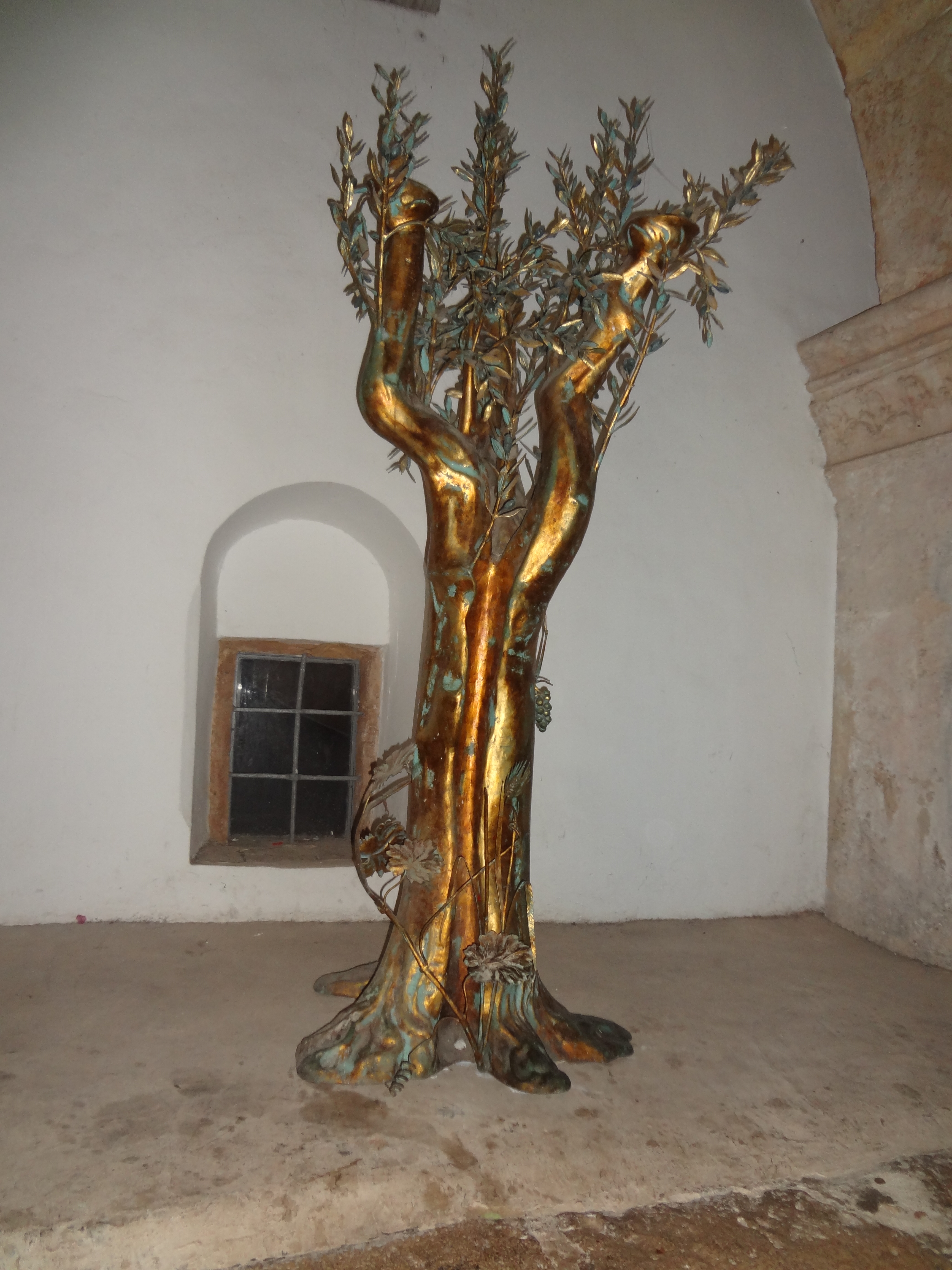 Tree in Cenacle room